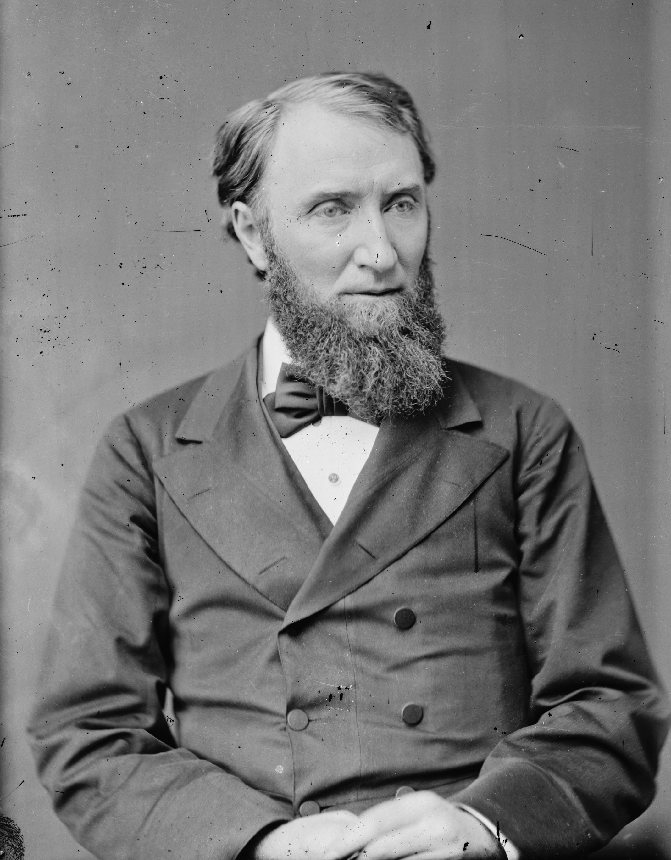 Joseph Gurney Cannon. Library of Congress description: "Cannon, Hon. Joe neg. made 1876 M.C. - Ill."